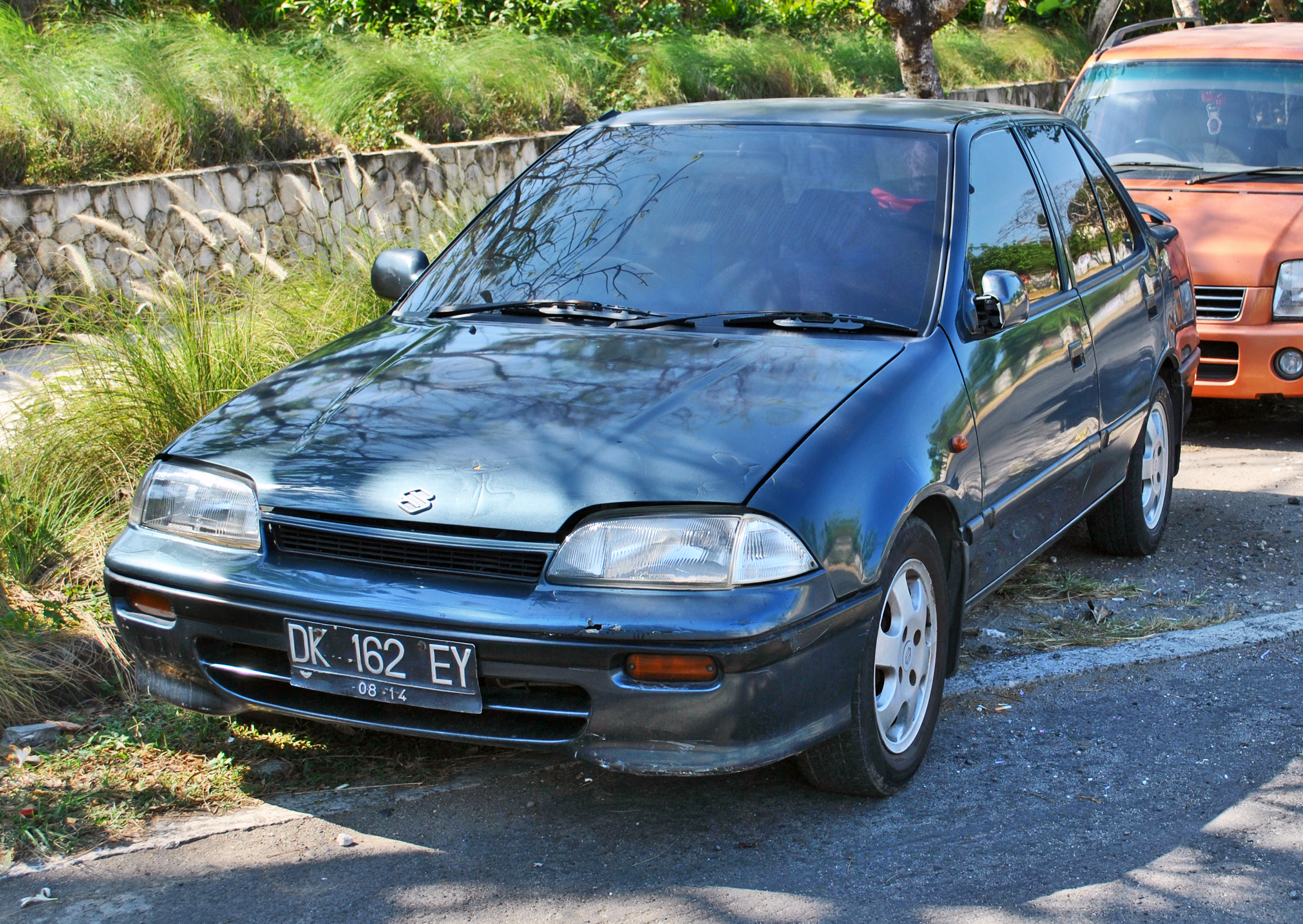 Suzuki Esteem sedan photographed near The Mulia hotel at Nusa Dua, Bali, Indonesia. It is no way related to American Suzuki Esteem which is translated by Indonesian market as a Suzuki Baleno, this rather based from Suzuki Cultus.